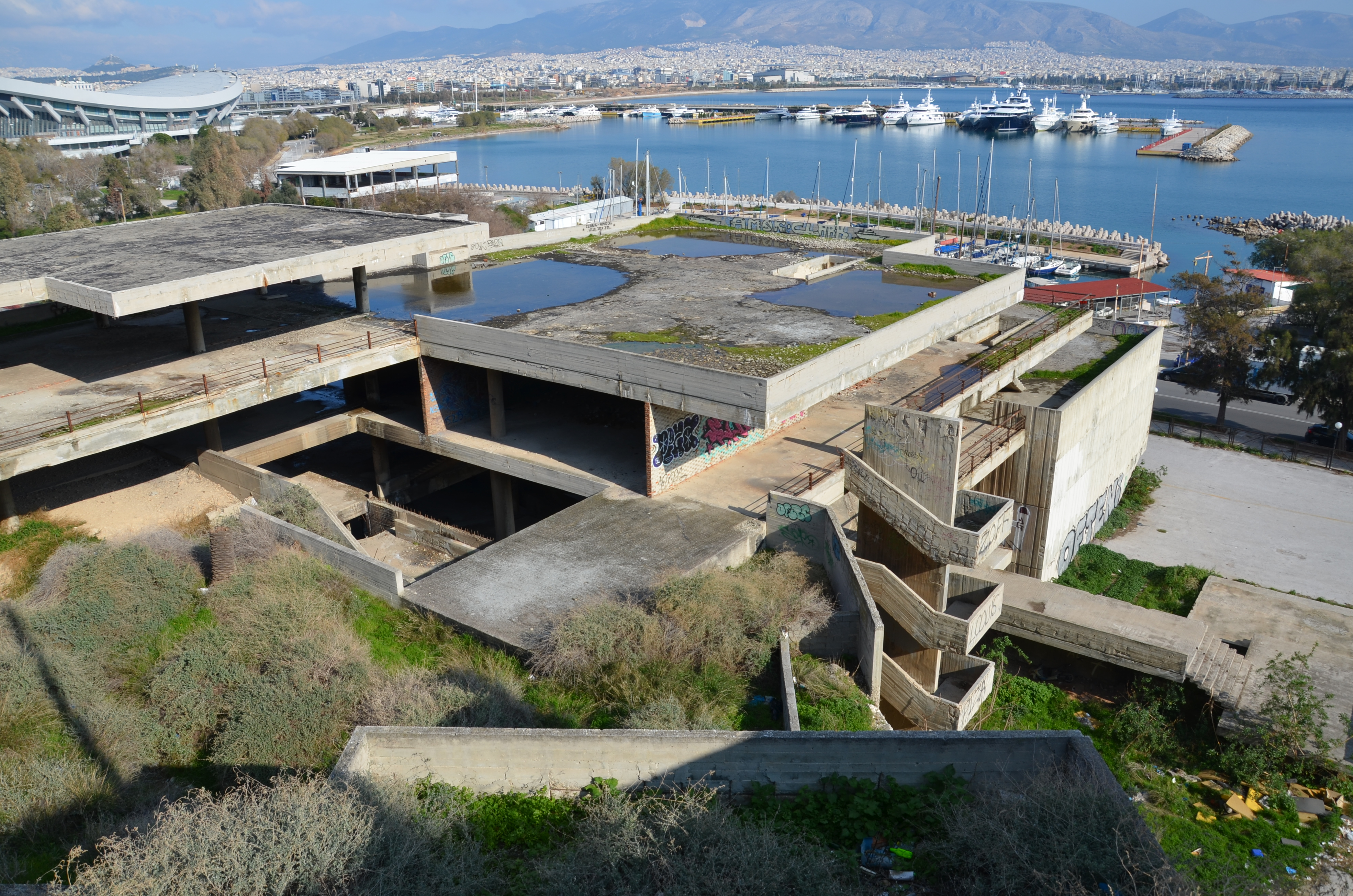 Liapis, Cultural Center